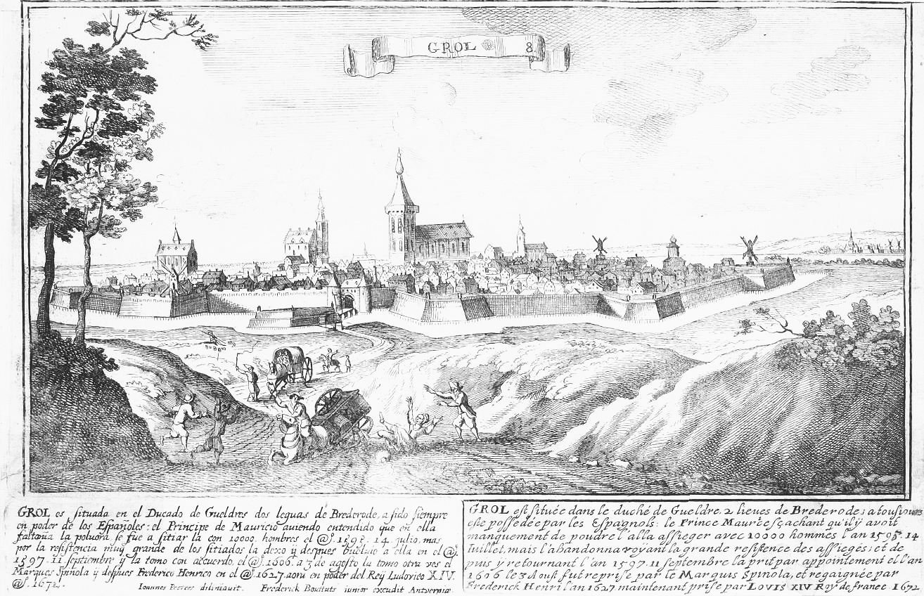 View on Grol (Groenlo, Netherlands)